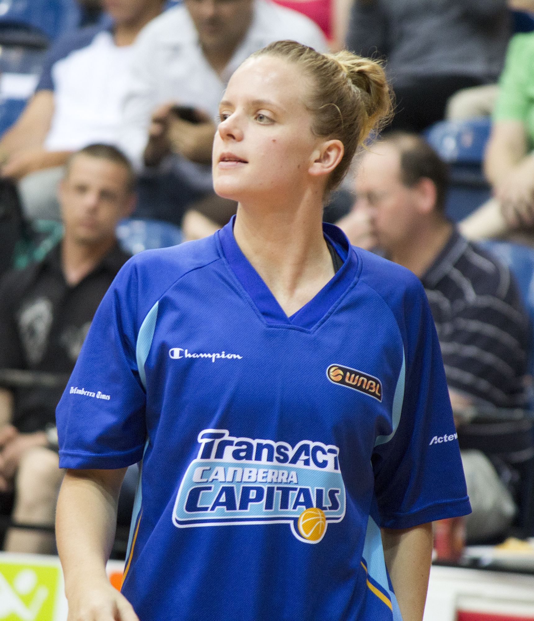 Alice Coddington } at the Canberra Capitals vs Logan Thunder held at AIS Arena at the Australian Institute of Sport.